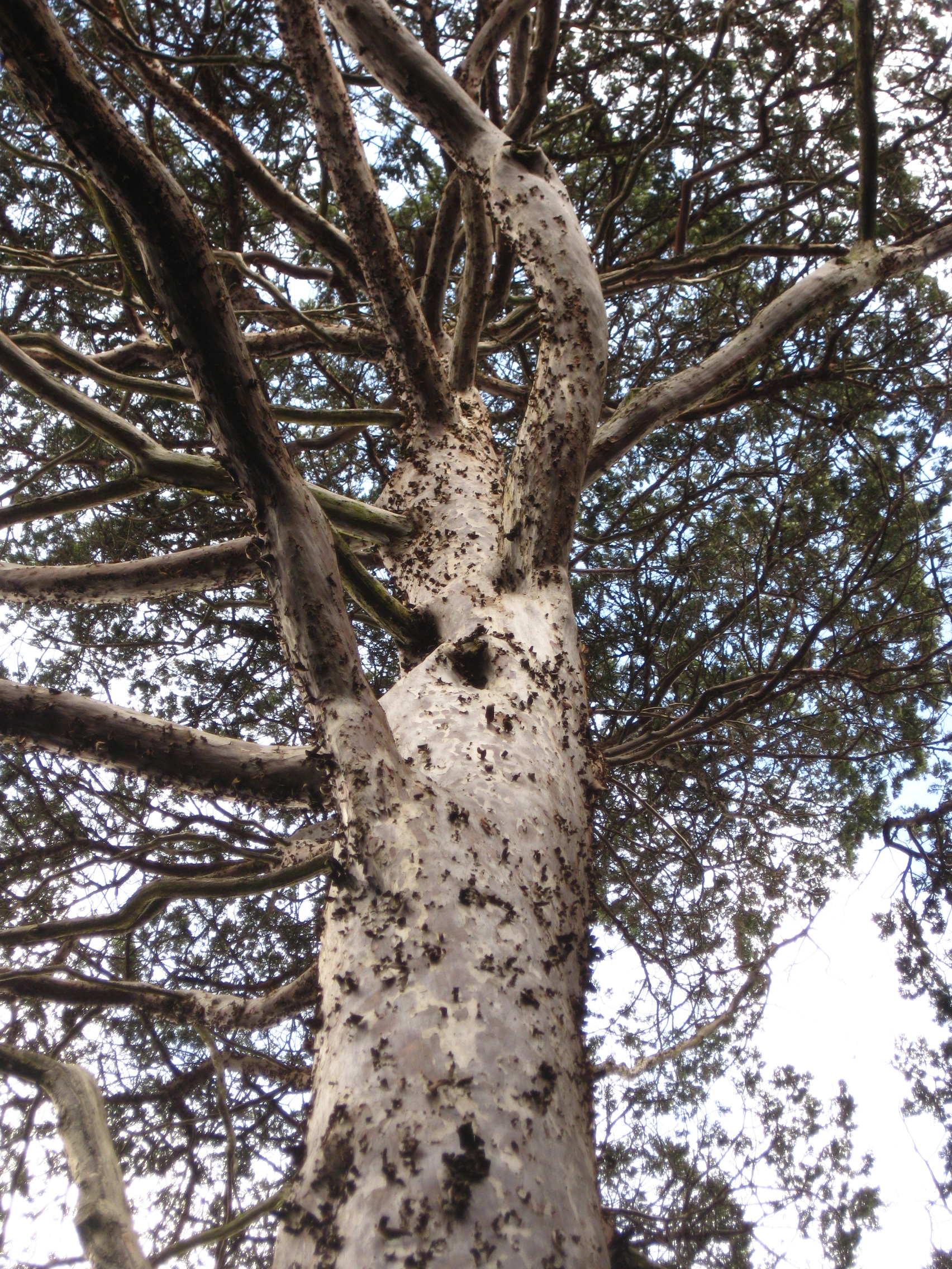 Eighty year old tree in East Golden Gate Park.